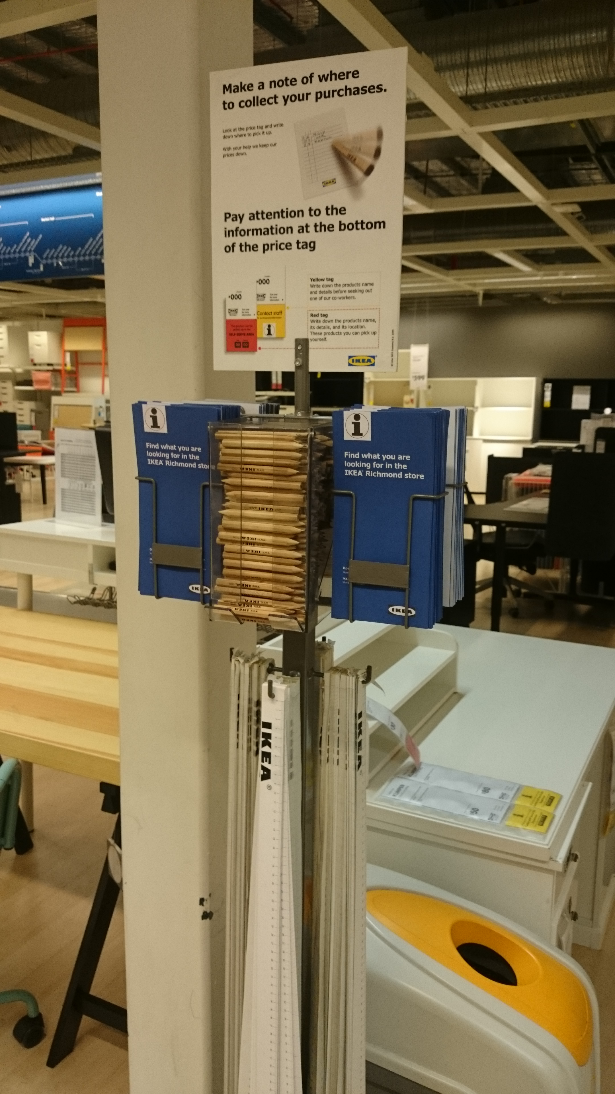 A stand for pencils, along with note pamphlets and rulers, at the IKEA Richmond, Australia store.